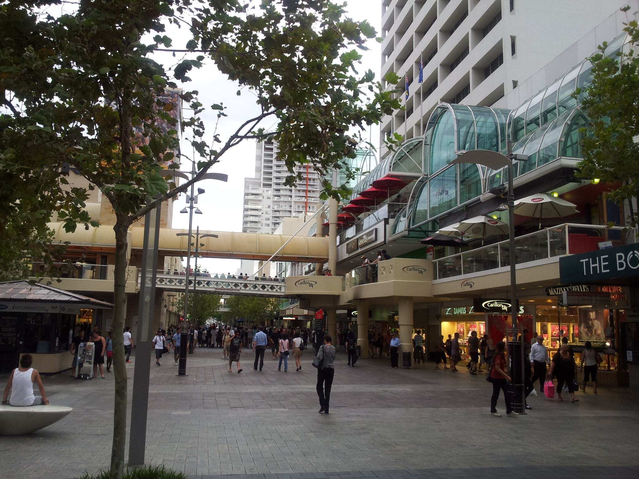 Murray Street Mall, Perth, Western Australia, on a Friday night.